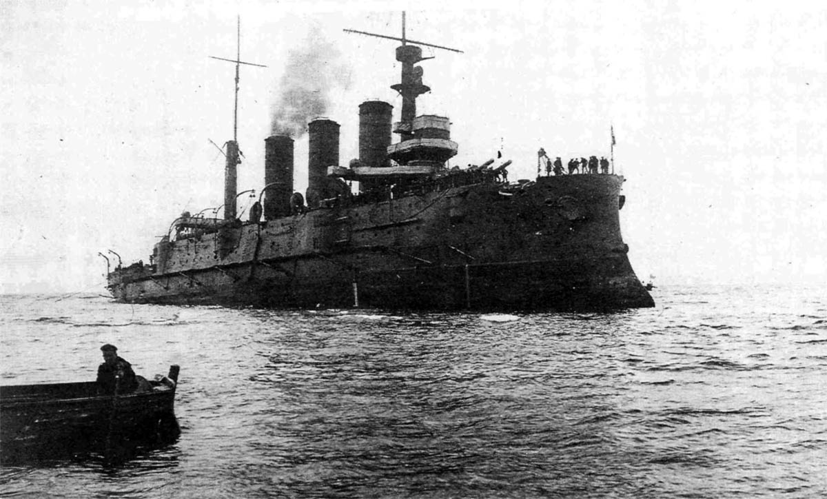 Imperial Russian battleship (reclassified as armoured cruiser) Peresvet, stuck on rocks near Vladivostok, May 1916.